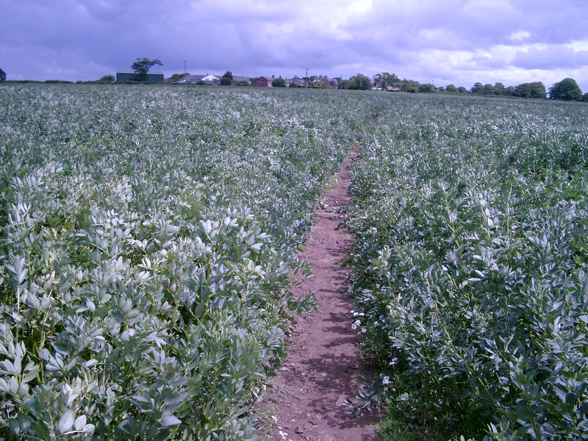 The Thingwall-Storeton public footpath cuts right through a crop of Green Beans near Little Storeton, Wirral, England.